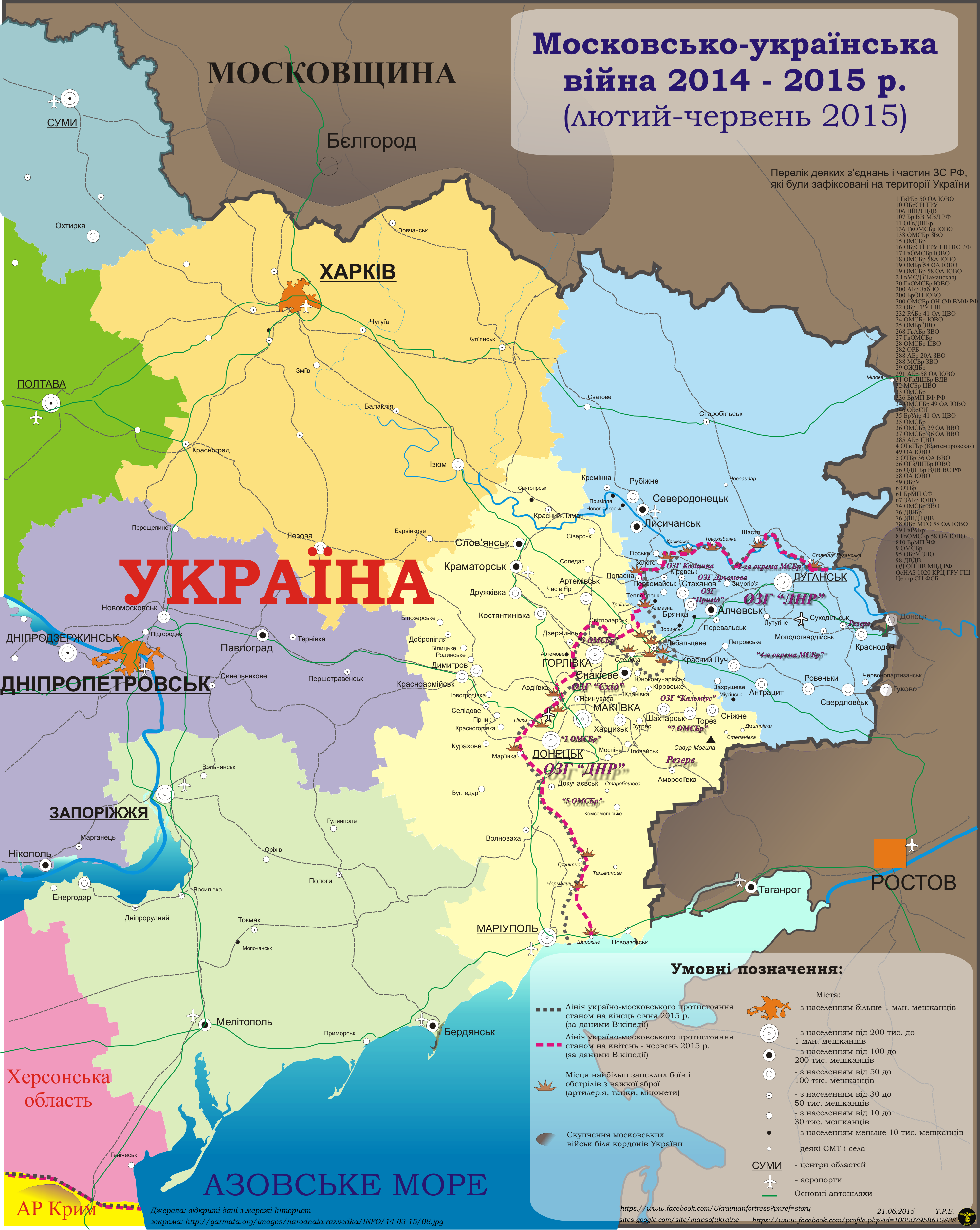 Moscow-Ukrainian war, February-June 2015